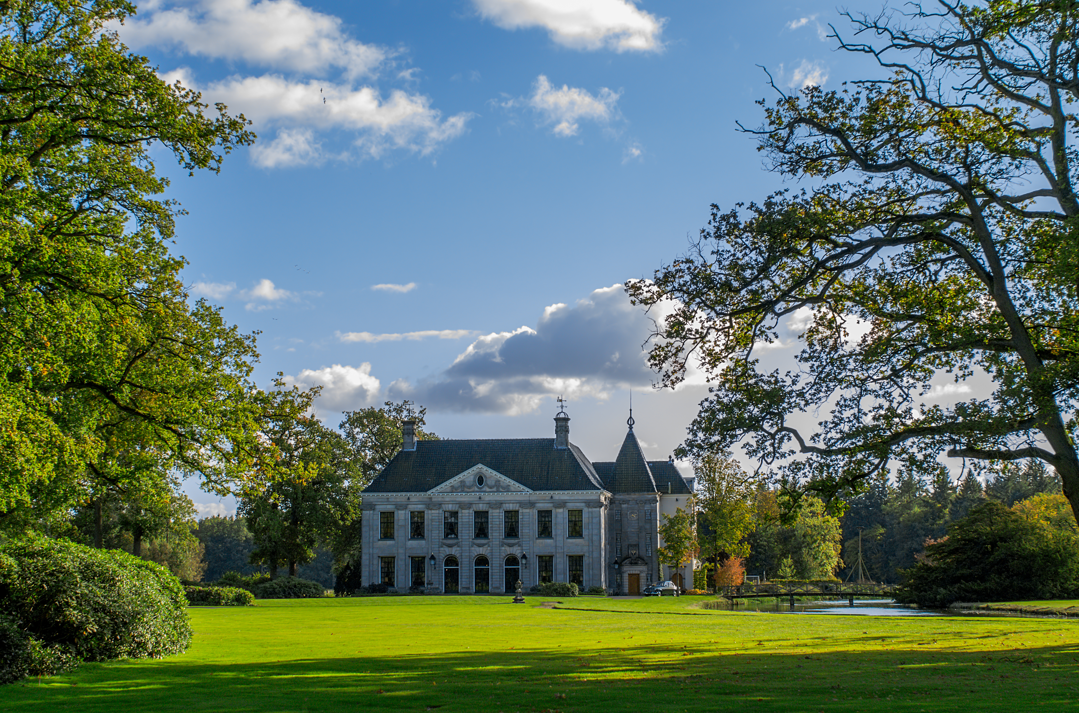 (in Dutch)